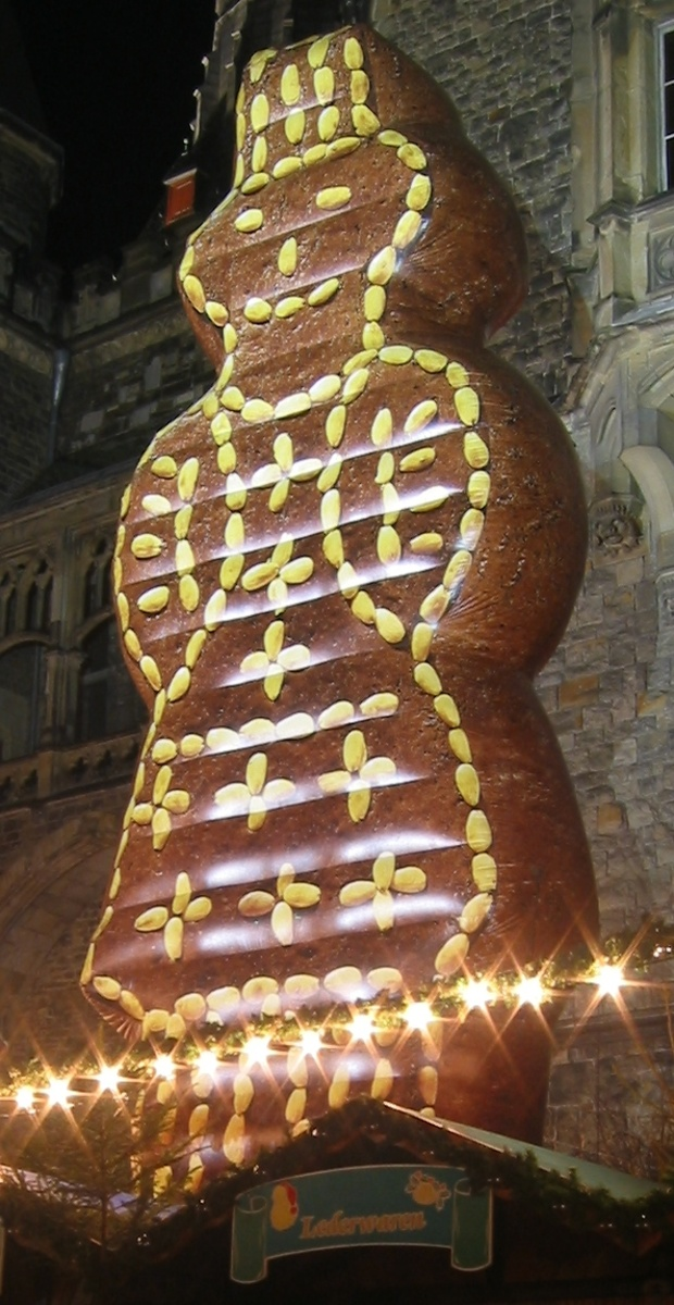 The large "Printenmann" on the Aachener Weihnachtsmarkt at the Katschhof